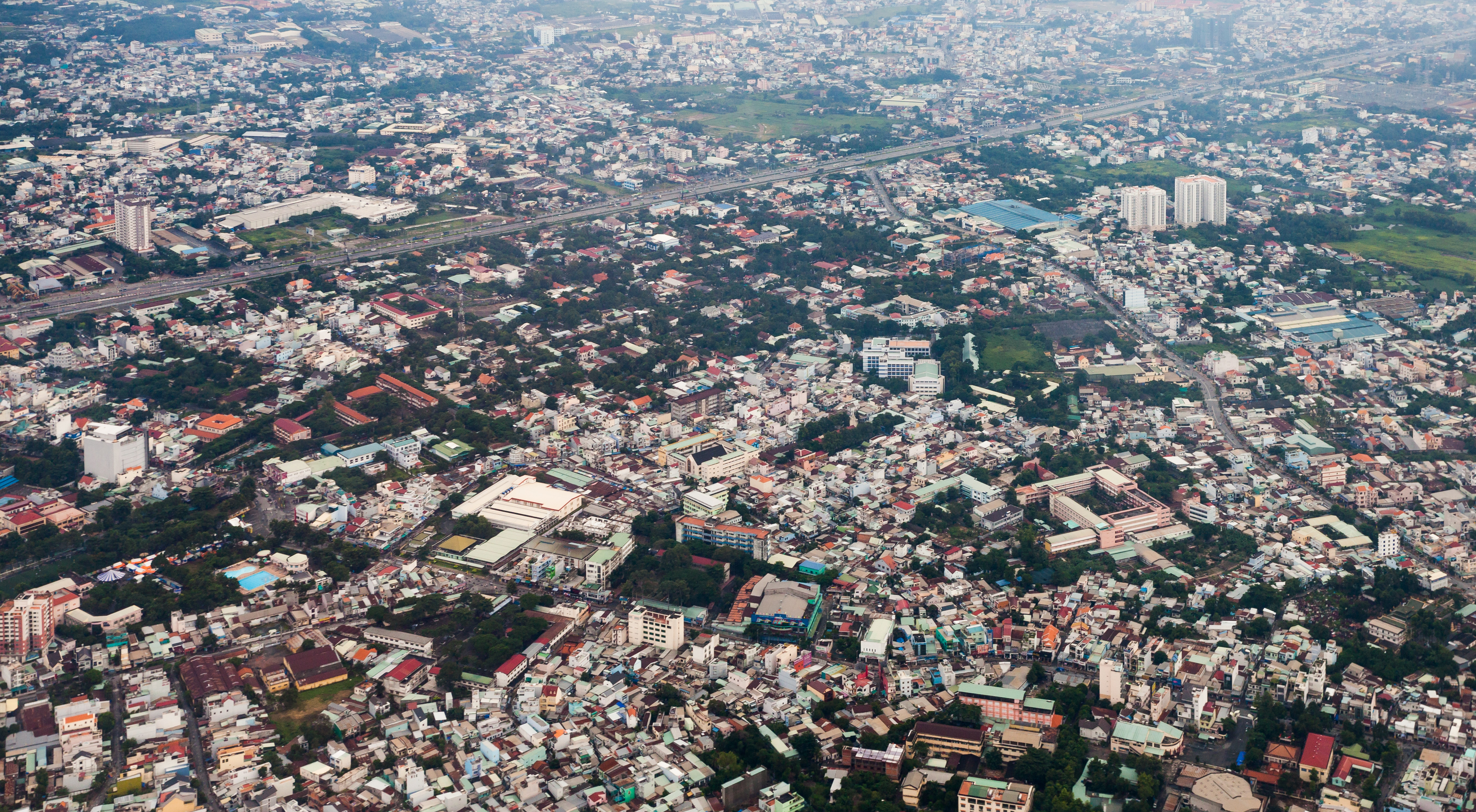 Aerial view of Ho Chi Minh City, Vietnam